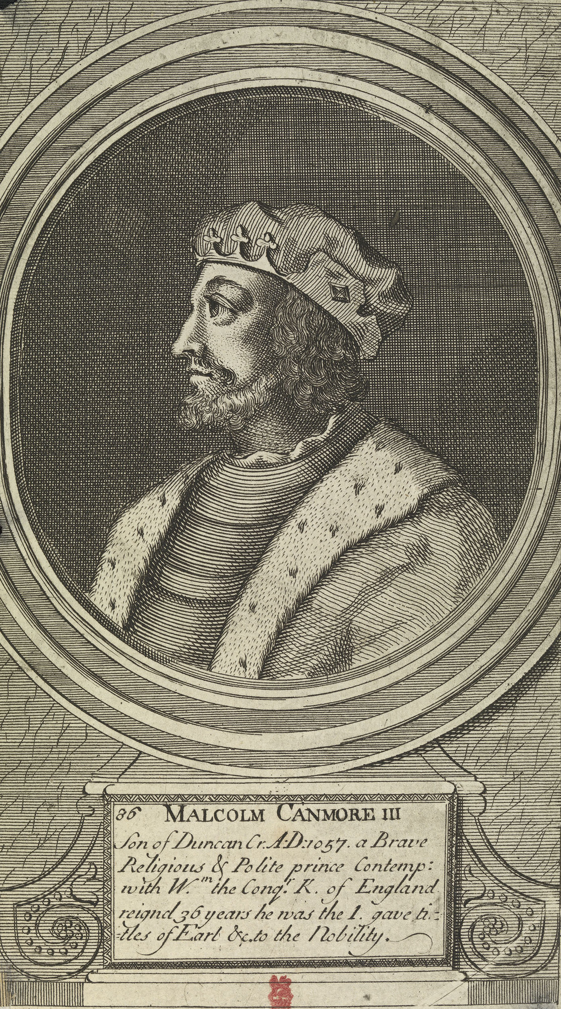 Malcolm Canmore or Malcolm III, king of Scotland or Alba from 1058-1093.